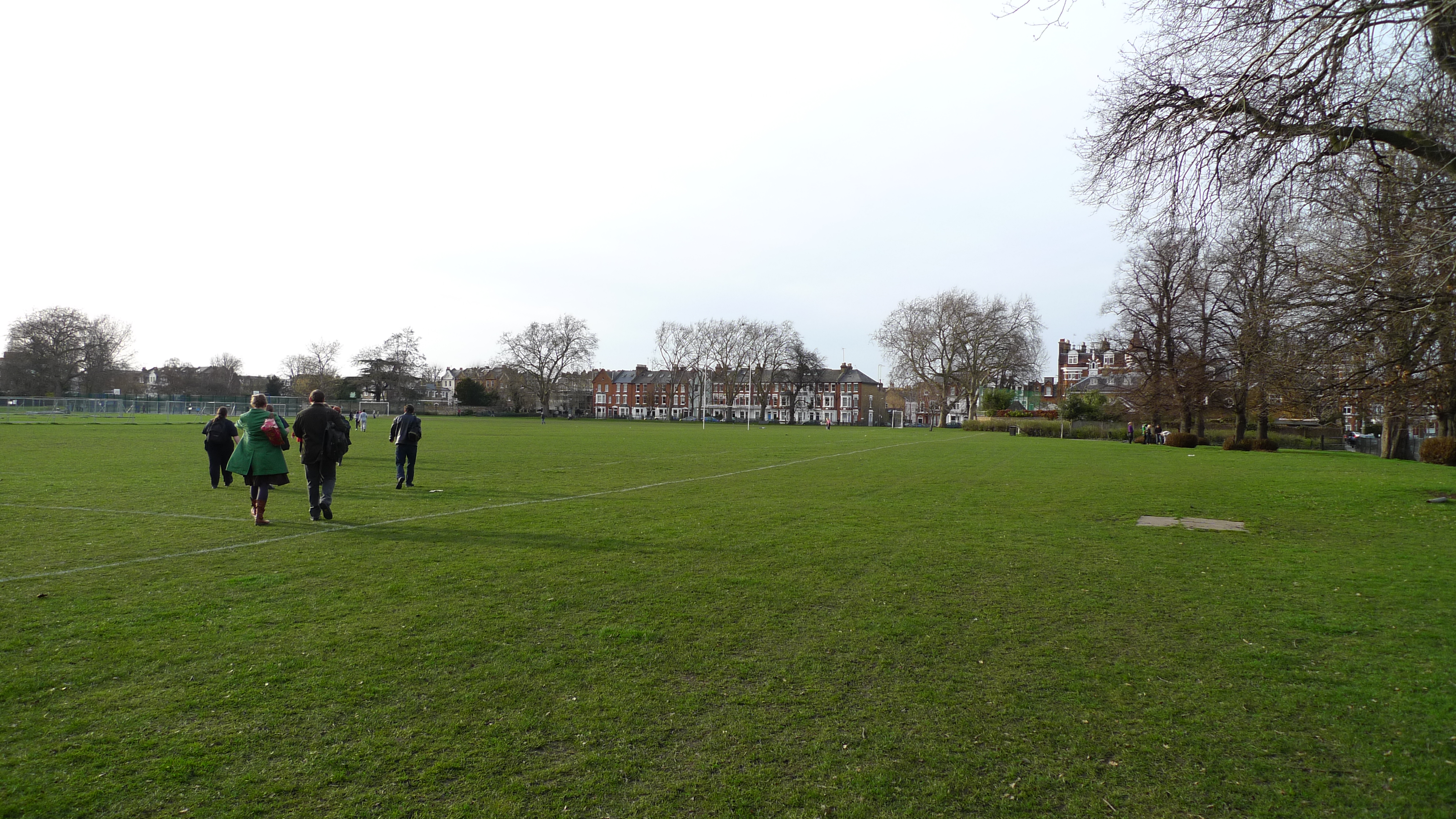 A large area of open playing field space, though the majority of the area is taken by the Hurlingham Club. Photo taken March 2009. Owner: London Borough of Hammersmith and Fulham.